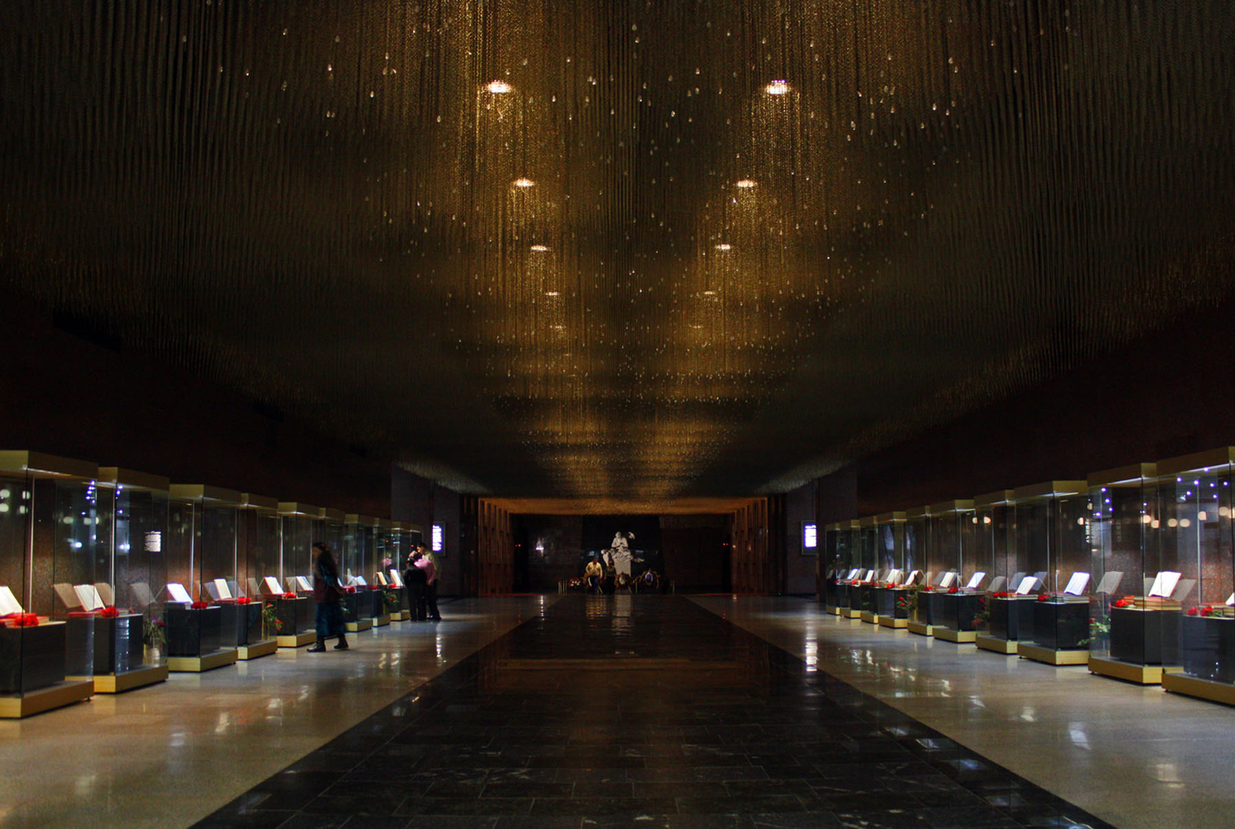 The central museum of the Great Patriotic War (Moscow). The Memory and grief hall